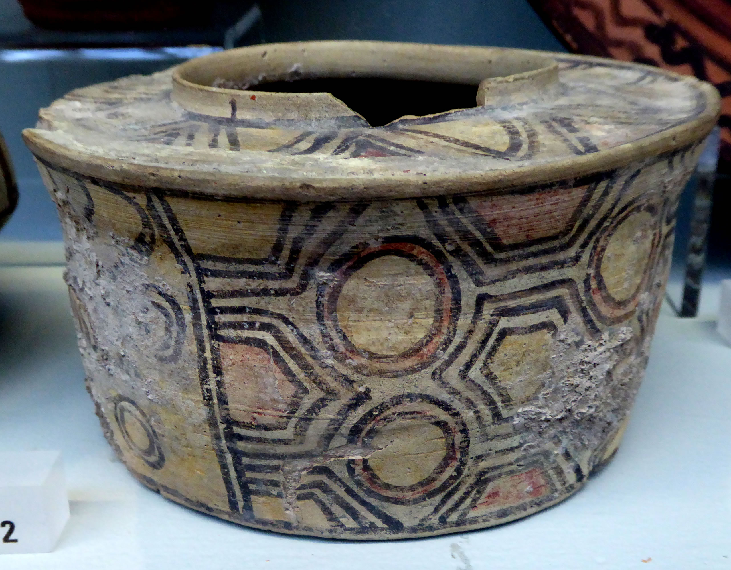 Vessel, painted in Nal tradition; 4th-3rd millenium BC, Balochistan, now Victoria and Albert Museum, London IM.48-1909; found in an un-named mound near Sohr Damb, Baluchistan